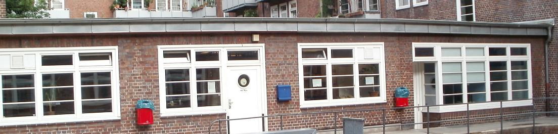 Publishing house of the street magazine Hinz & Kunzt, Hamburg, Germany.